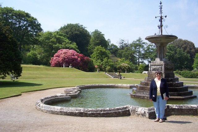 Garden Pencarrow Fountain in the garden at Pencarrow.